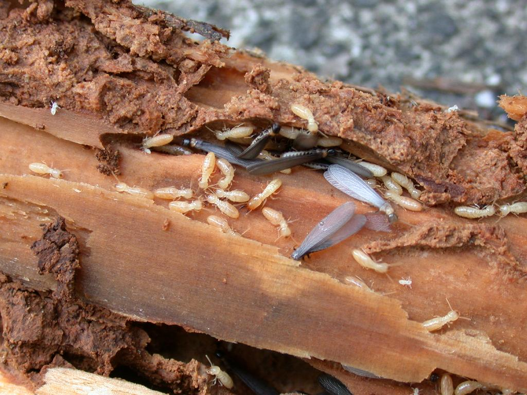 Reticulitermes speratus Japanese name;Yamatosiroari Date;2008,04,26;Tanabe city, Wakayama prefecture, Japan Author;Keisotyo